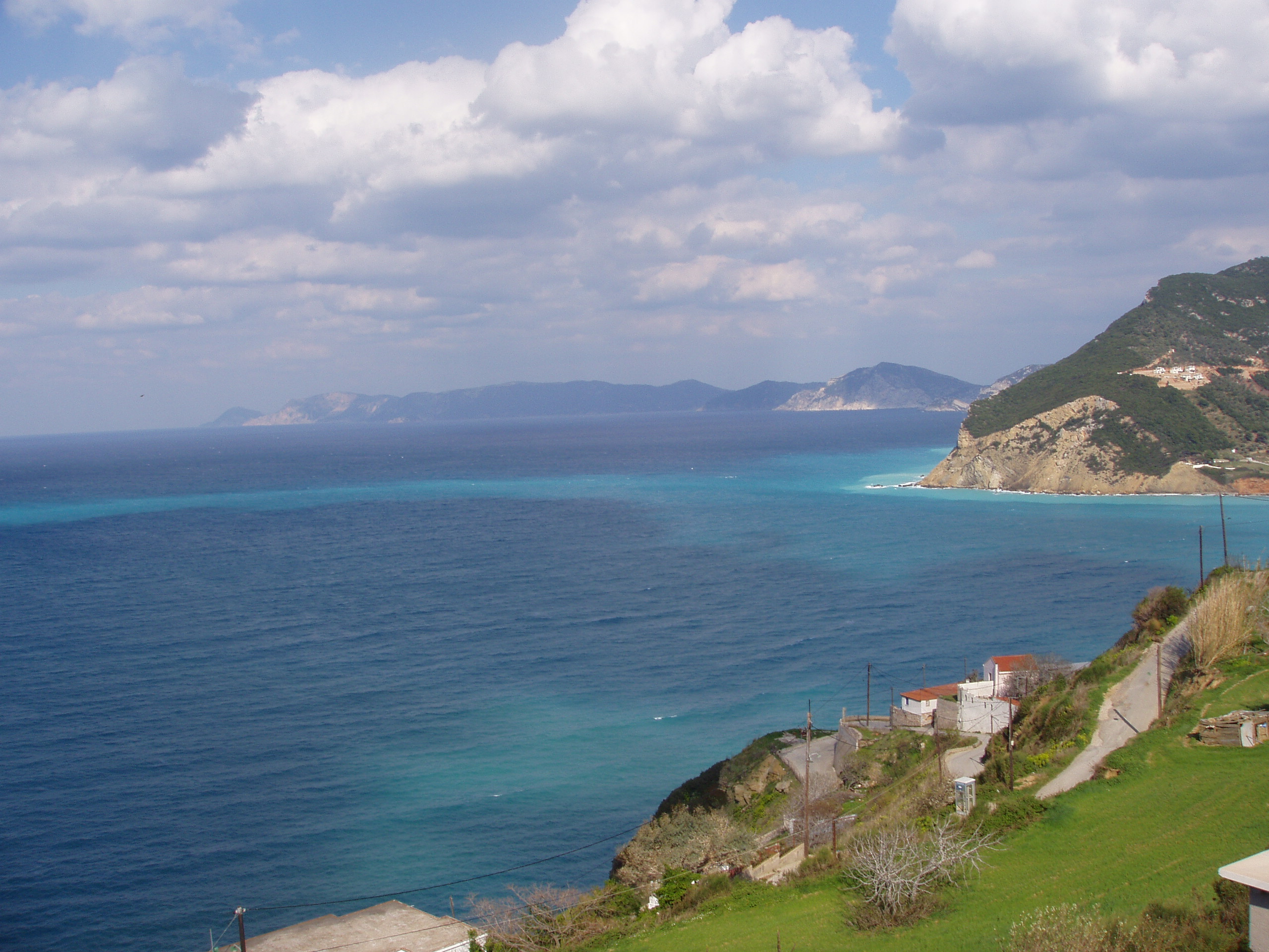 Aegean Sea, Jill Somer, personal photgraph